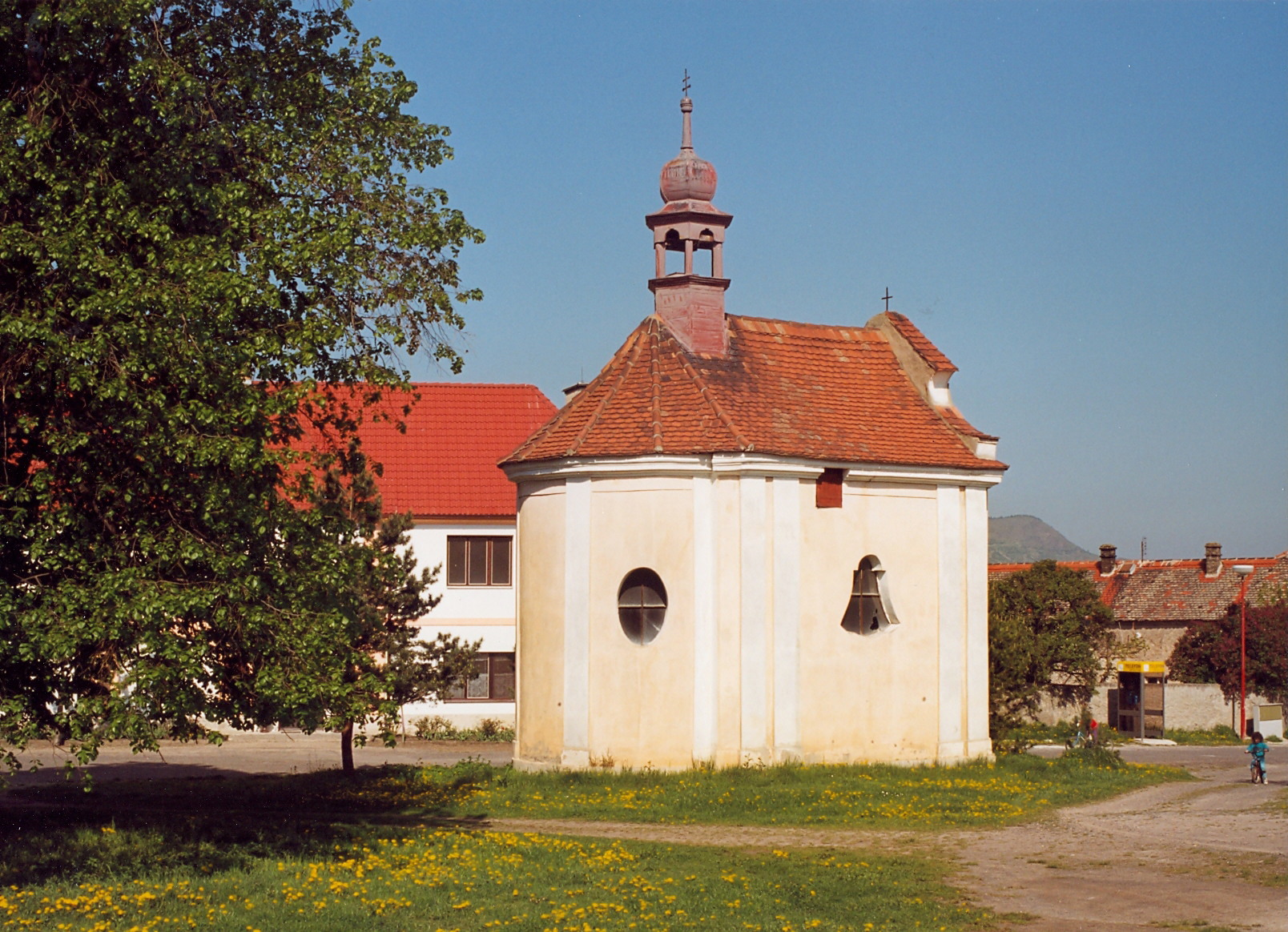 Chapel of Saint Ann in Nečichy